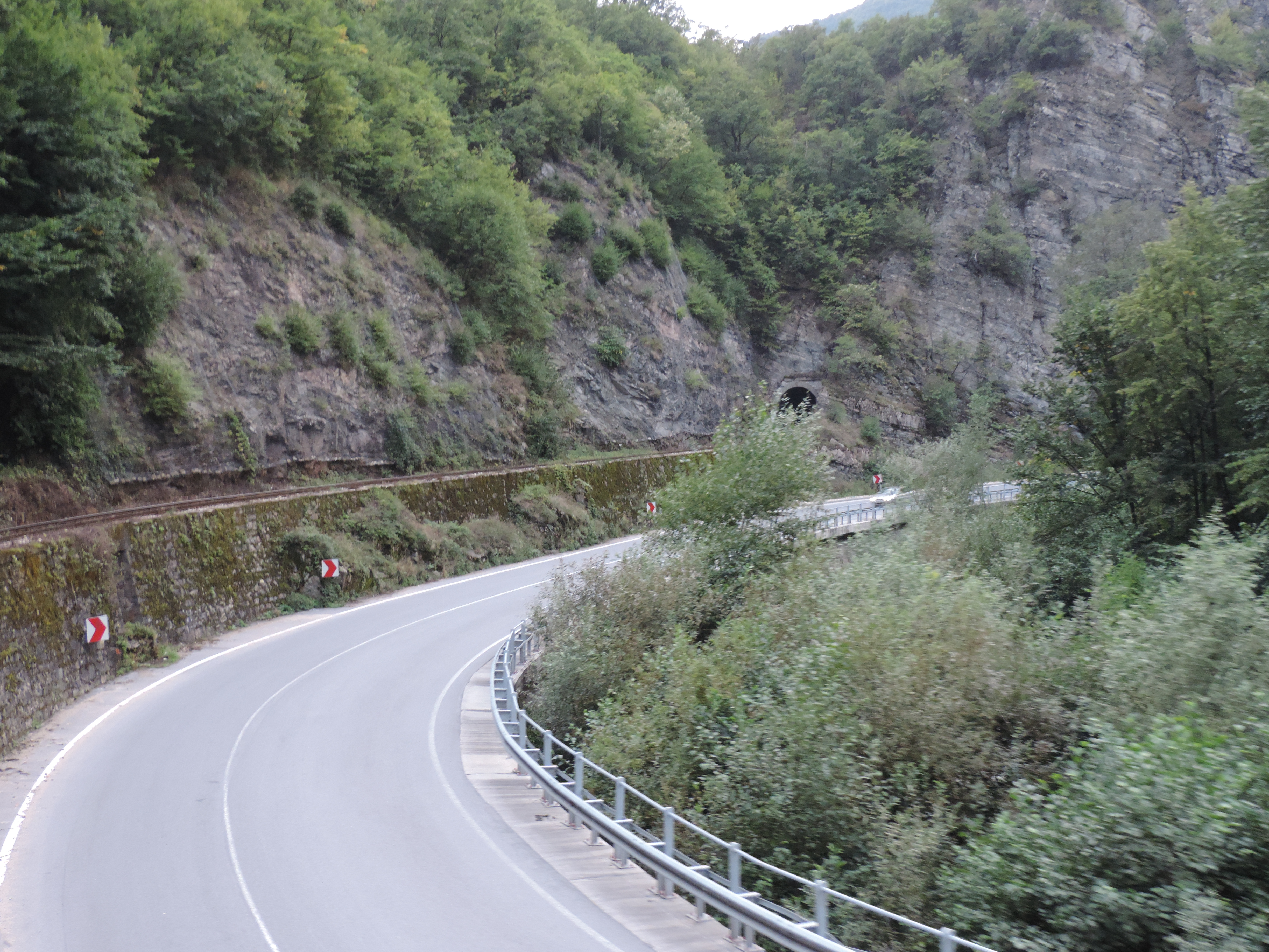 Road 84, Bulgaria